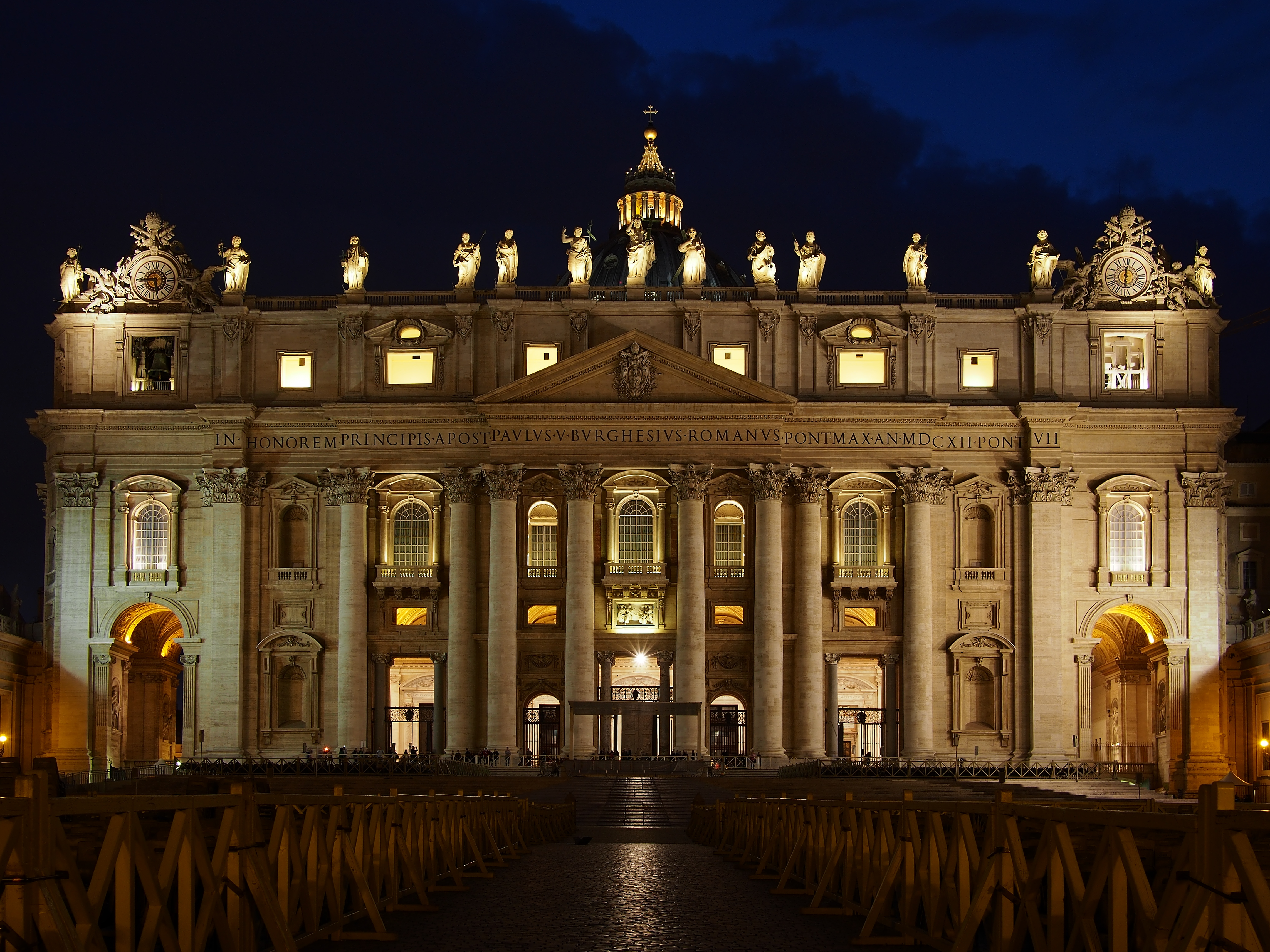 Saint Peter's Basilica at night. Vatican City.